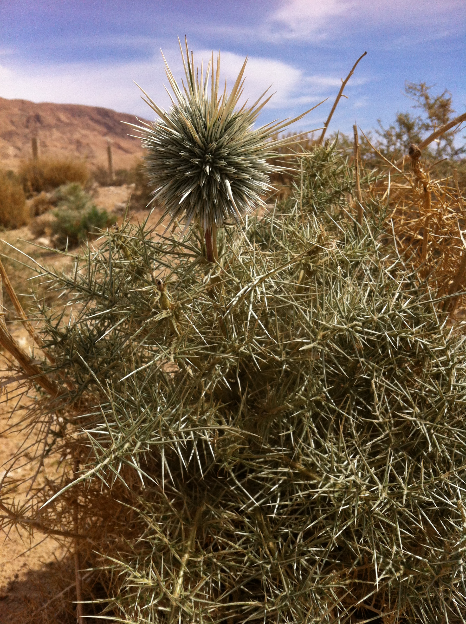 Echinops spinosissimus near Selja, Tunisia